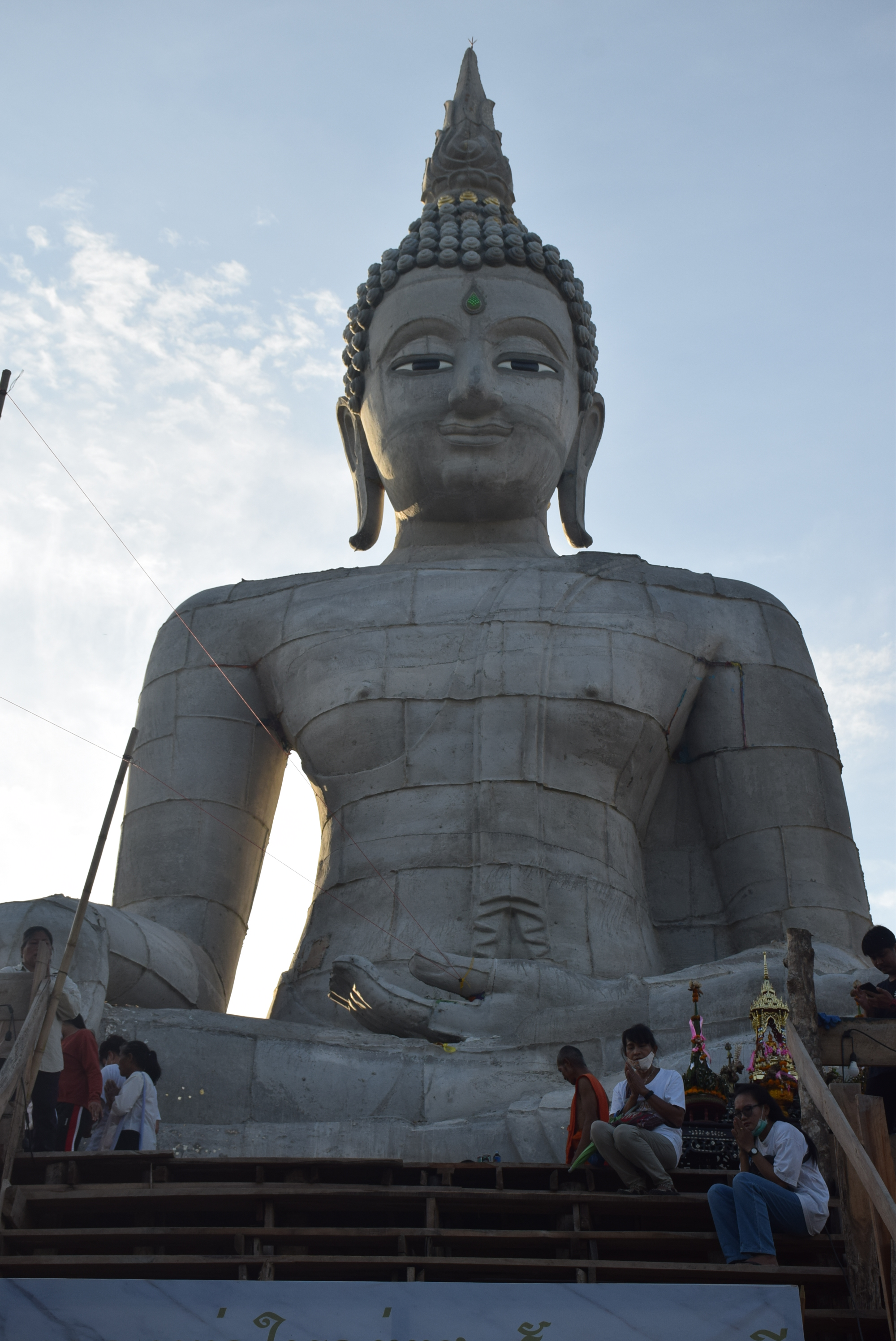 Phra Sambuddha Muni Siri-Uttaradit also known as The Great Buddha of Uttaradit. (Thai: หลวงพ่อใหญ่พระสัมพุทธมุนี สิริอุตรดิตถ์มหาปฏิมากร; Eng: Phra Sambuddha Muni Srisukhothai Triratanasavangkaburibapith Siri Uttaradit Mahapatimakara) Located in the Wat Kungtaphao temple in Uttaradit Province, this statue stands 19 m (63 ft) high, and is 10 m (33 ft) wide. Construction commenced in 2019, and was completed in 2020. It is made of concrete. The Buddha is in the seated posture called Maravijaya Attitude.